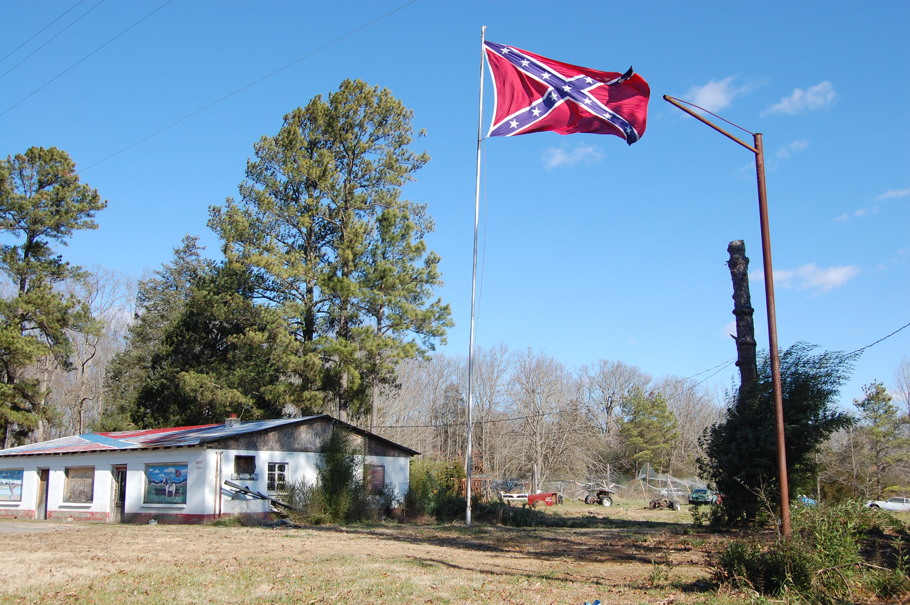 The Lost Cause remembered in rural Randolph County, North Carolina. Confederate battle flag and the roof and General Lee painted on the side give no question as to how The South is viewed here along HWY 42.